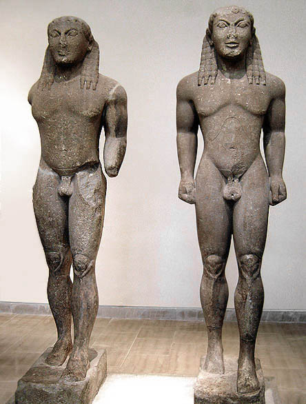 Statues of Kleobis and Biton (identified by inscriptions on the base) dedicated to Delphi by the city of Argos, signed by [Poly?]medes of Argos. Marble, Peloponnesian artwork (?), ca. 580 BC. H. 1.97 m (6 ft. 5 ½ in.), after restoration. Archaeological Museum of Delphi, no. 467, 1524.